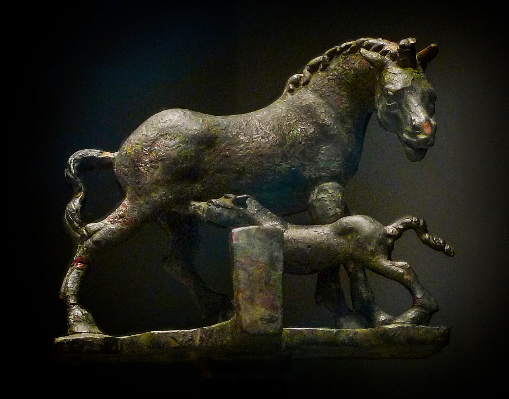 Closeup of a mare and foal representing infancy on a Roman tripod 250-300 CE Bronze at the Getty Villa